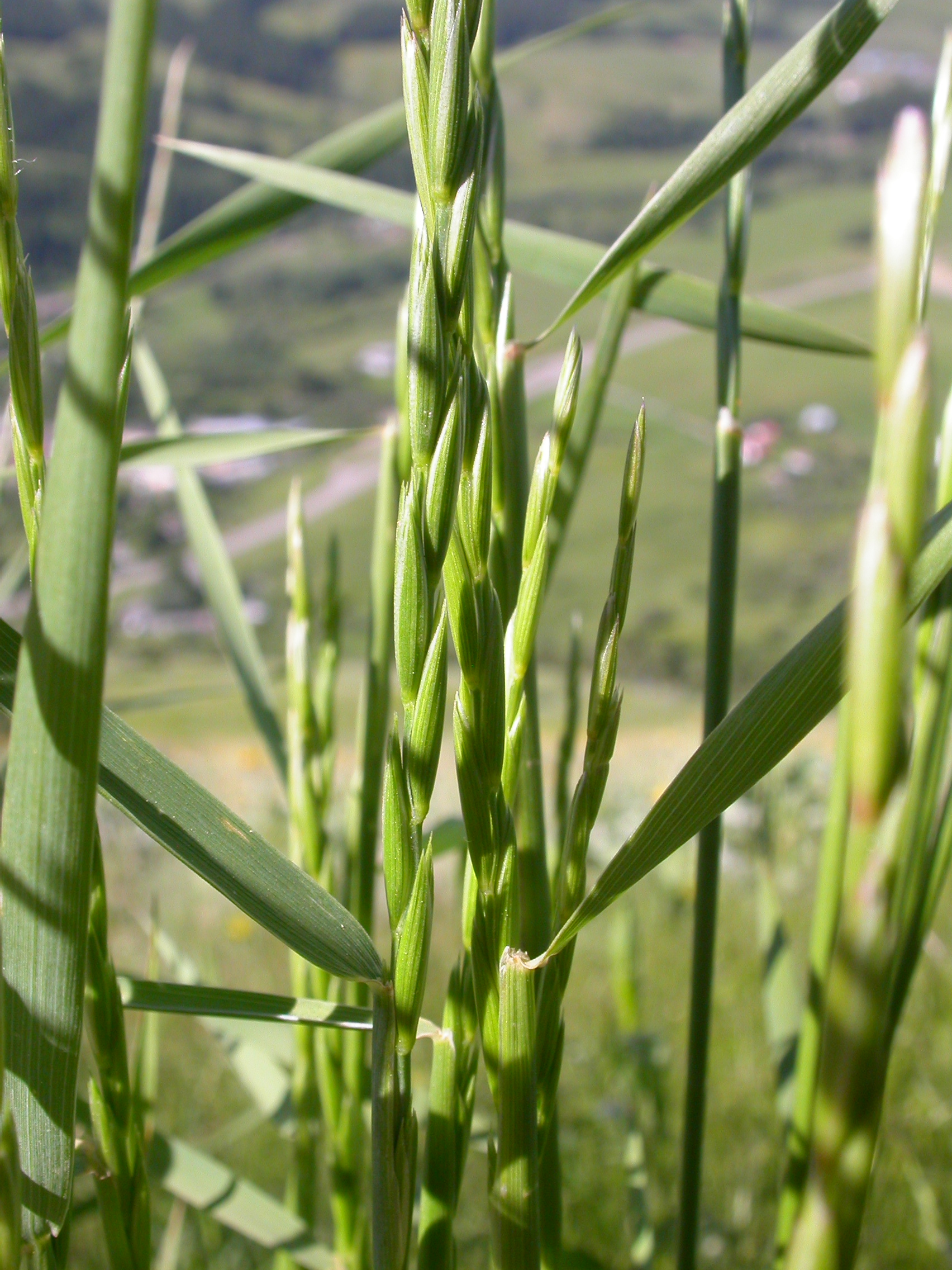 The large "oatgrass" glumes (enfolding or mostly so all the florets inside a single spikelet) are diagnostic of slender wheatgrass.